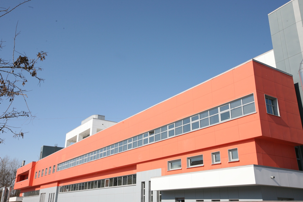 South facade of Kurchatov Synchrotron